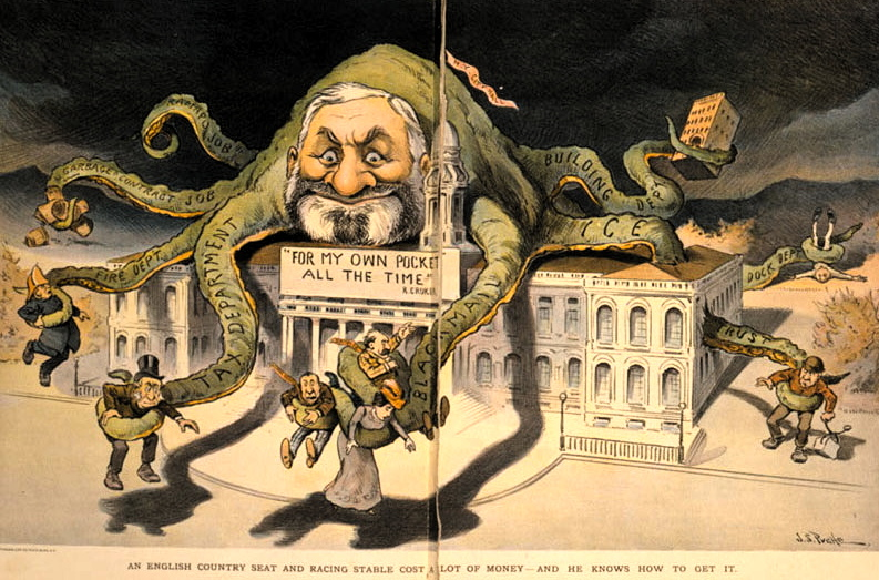 “An English country seat and racing stable cost a lot of money... and he knows how to get it.” (Croker purchased an 18th-century estate in England, Antwicks Manor, where he kept a stable of racing horses.) From Puck.